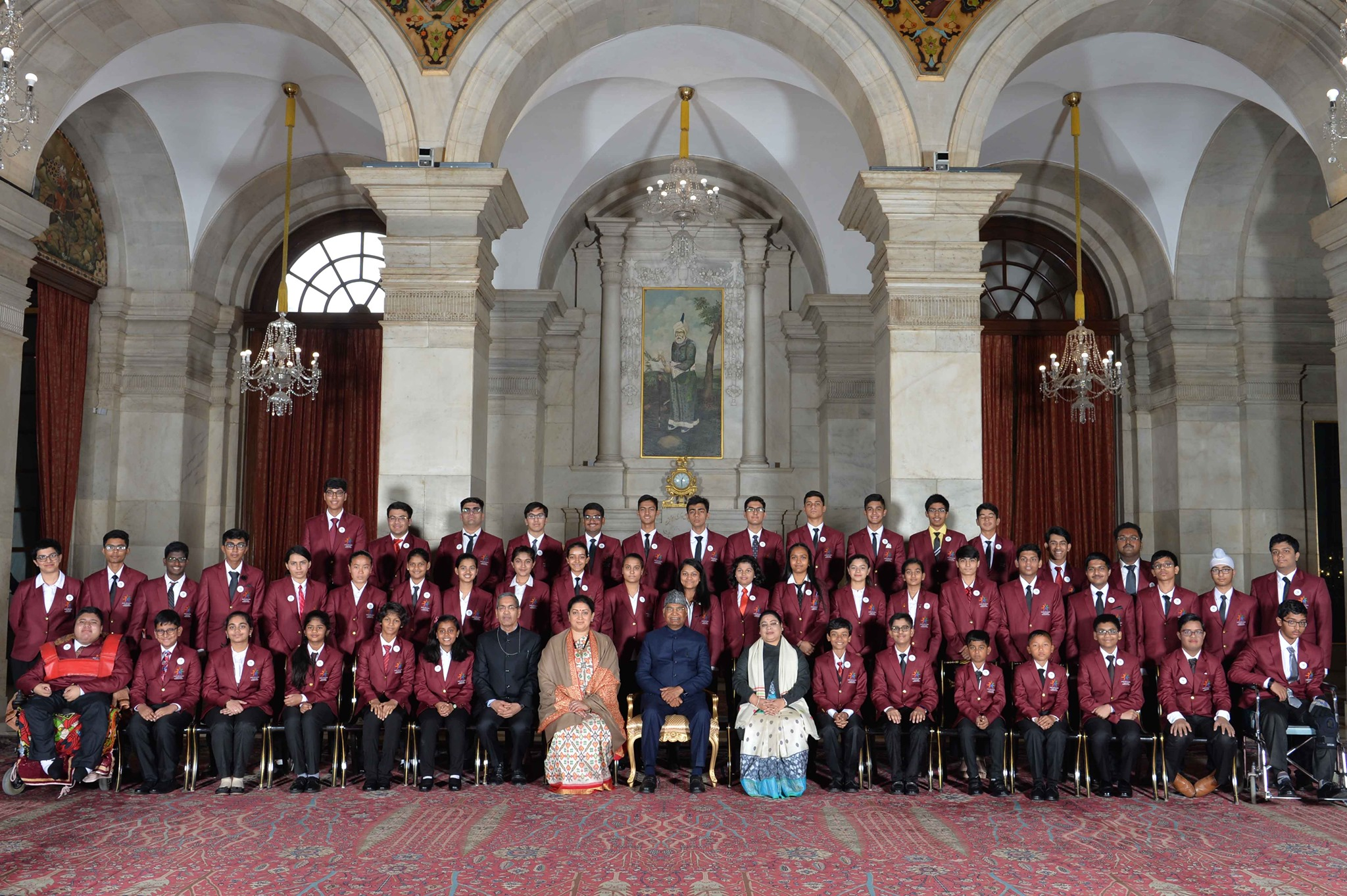 President of India, Ram Nath Kovind, interacting with winners of Pradhan Mantri Rashtriya Bal Puruskar, 2020.